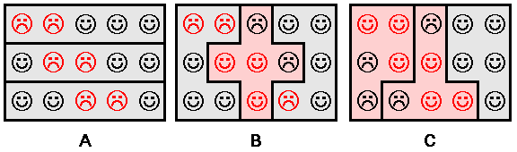 For gerrymandering in zh.wikipedia